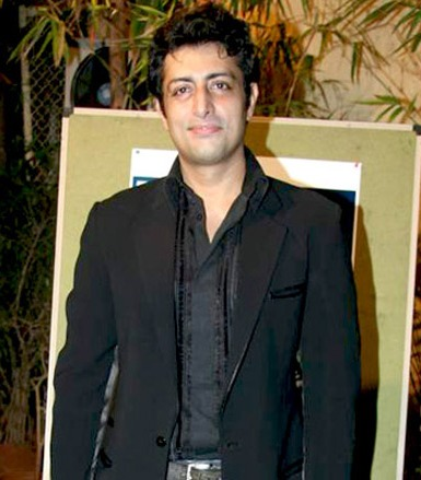 Bollywood actor Priyanshu Chatterjee